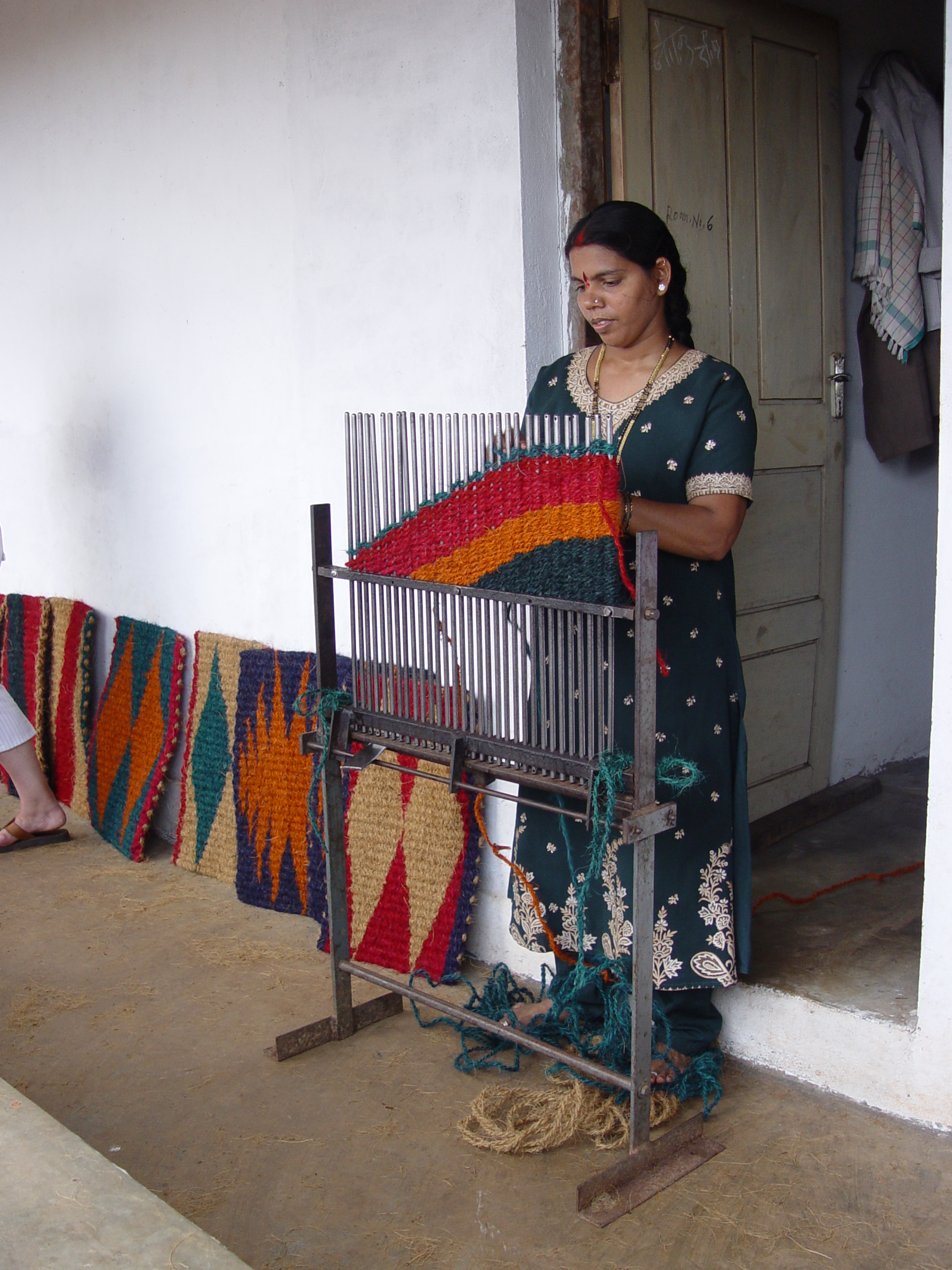 Making doormats from coir. India